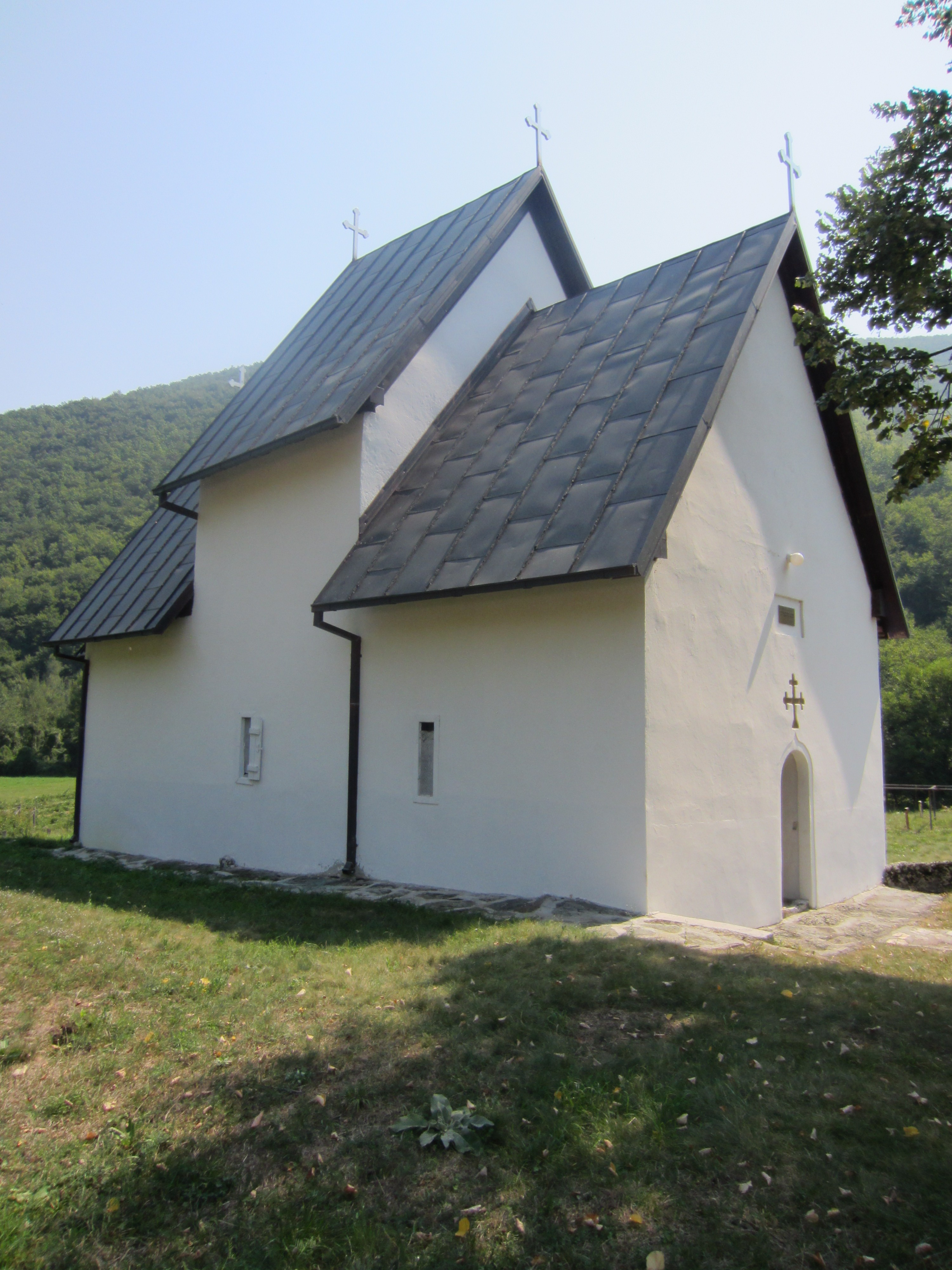 Church of Saint Archangel in Poblaće, Priboj